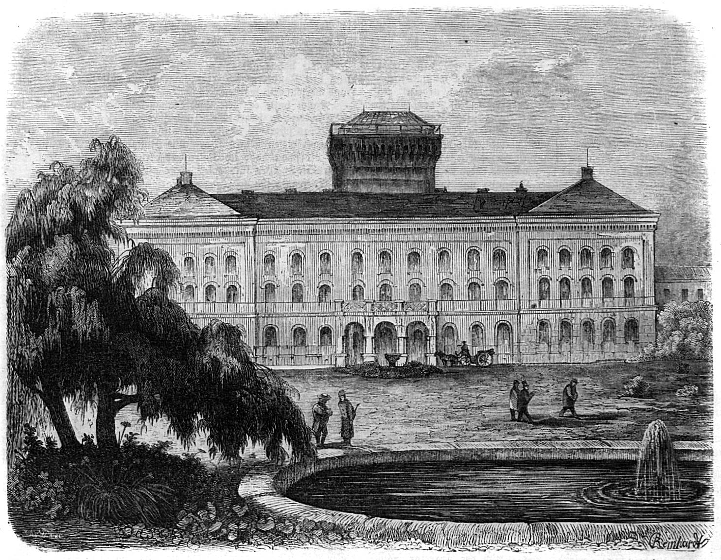 caption: "Die k. k. Irrenanstalt in Wien."